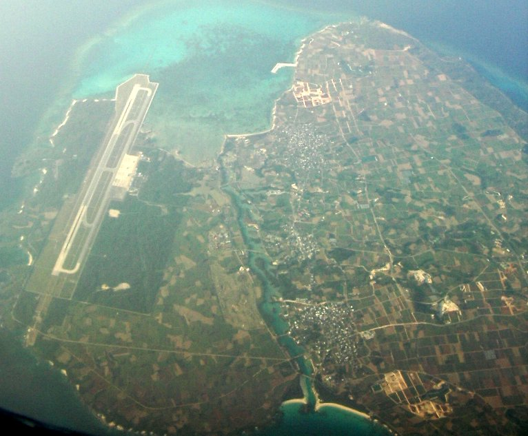 Irabu and Shimoji islands view from aircraft.